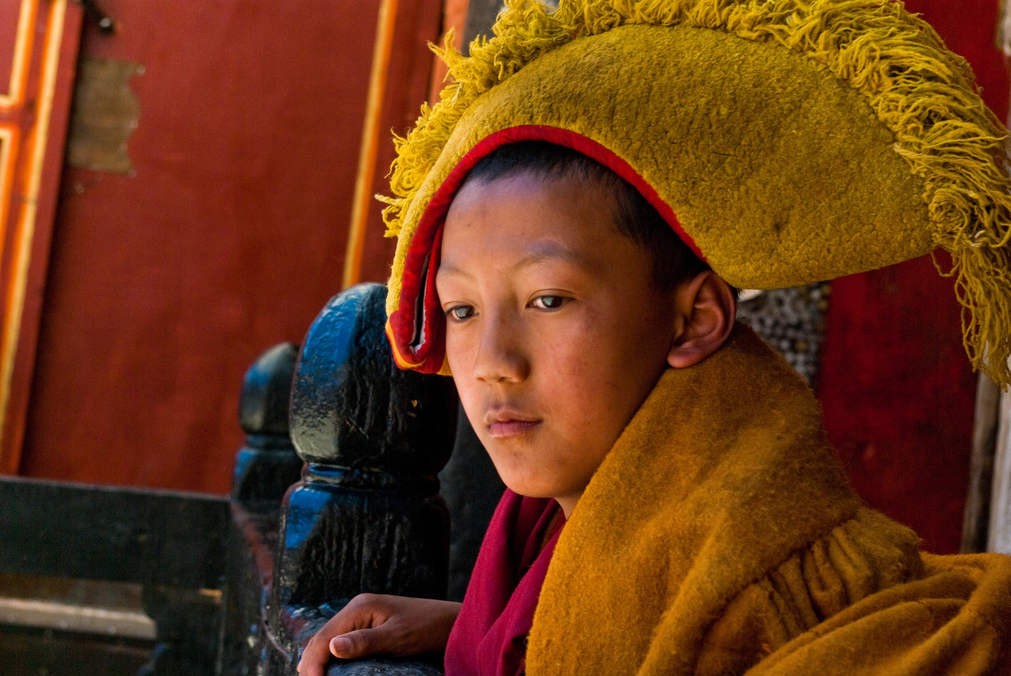 Monk in Tashilhunpo